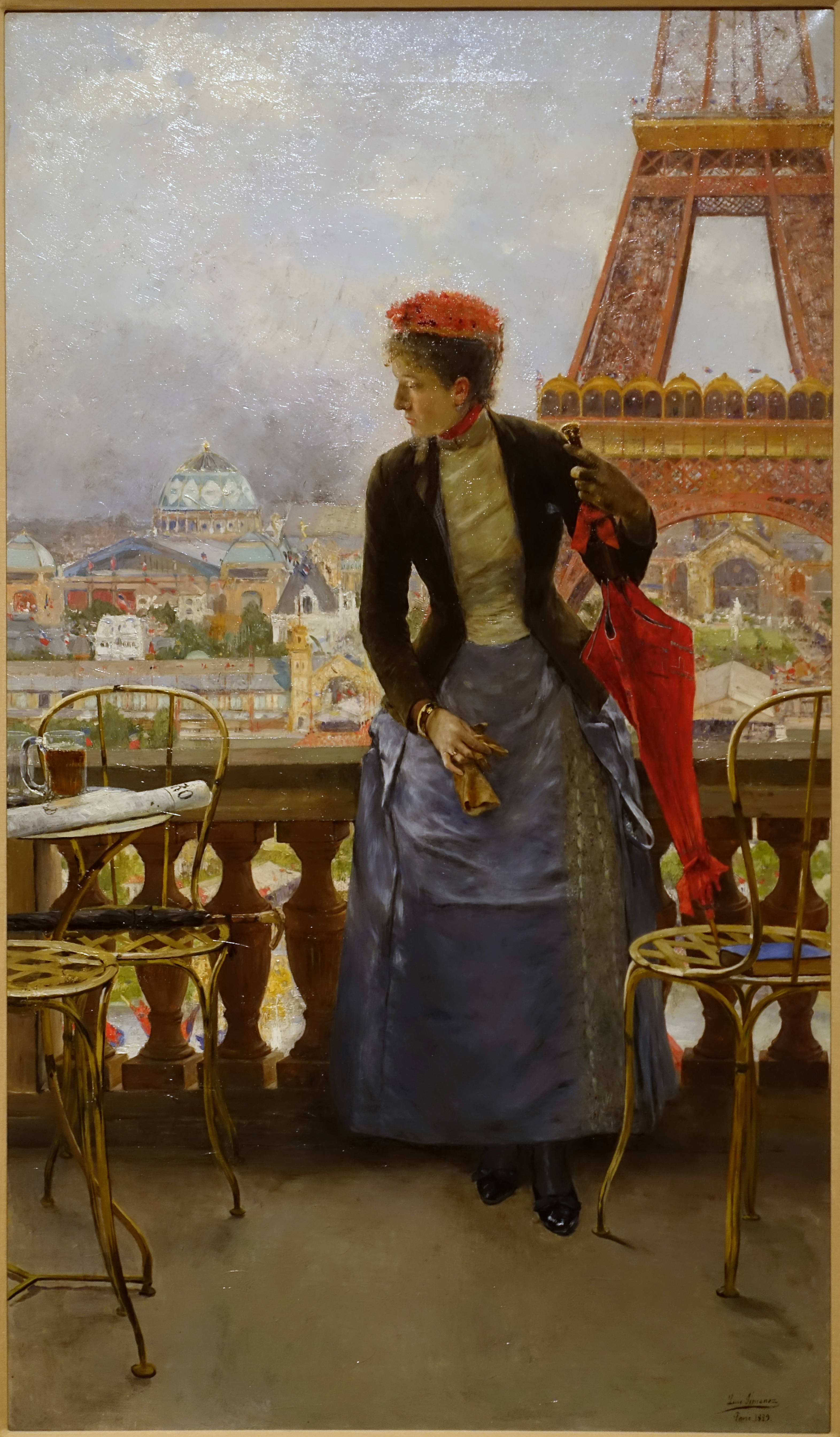 Exhibit in the Meadows Museum - Southern Methodist University, Dallas, Texas, USA.